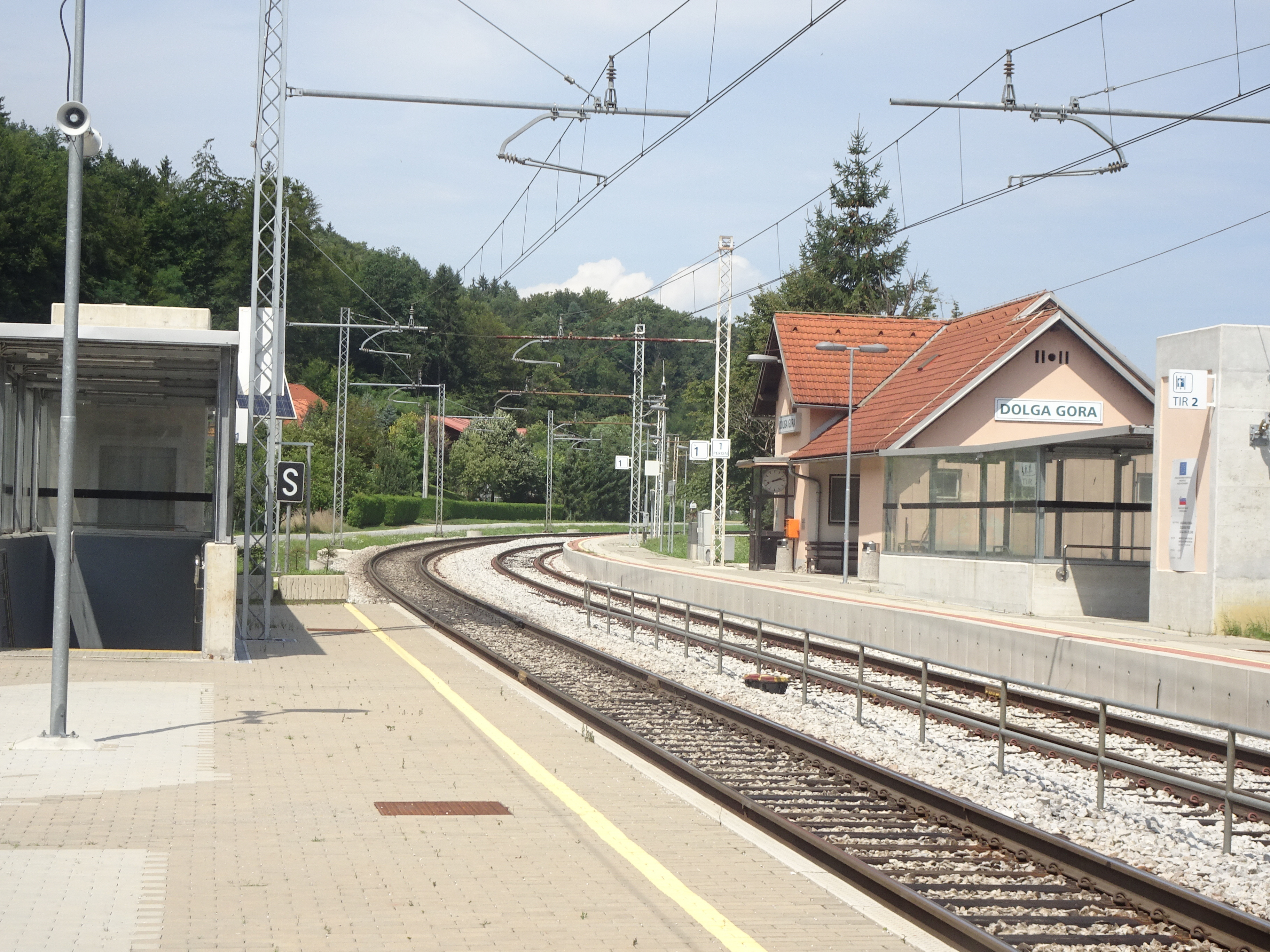 Train station Dolga Gora, Slovenia